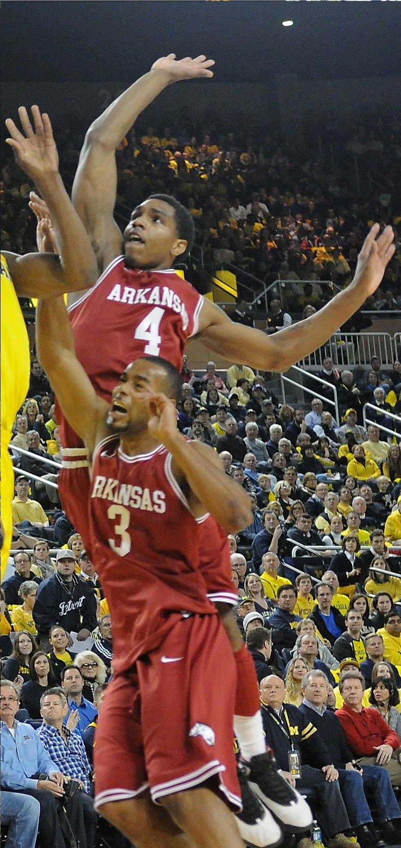 Coty Clarke (4)